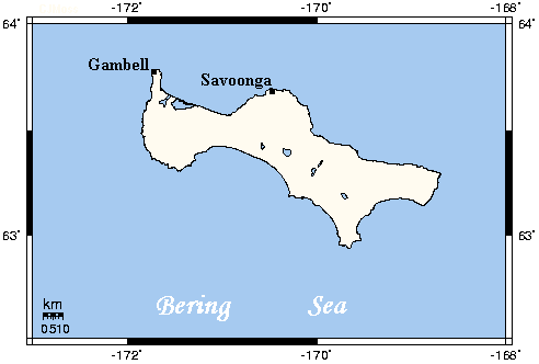 Map showing Saint Lawrence Island (Alaska) and its two villages